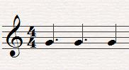 Picture showing argentinian tango rhythm